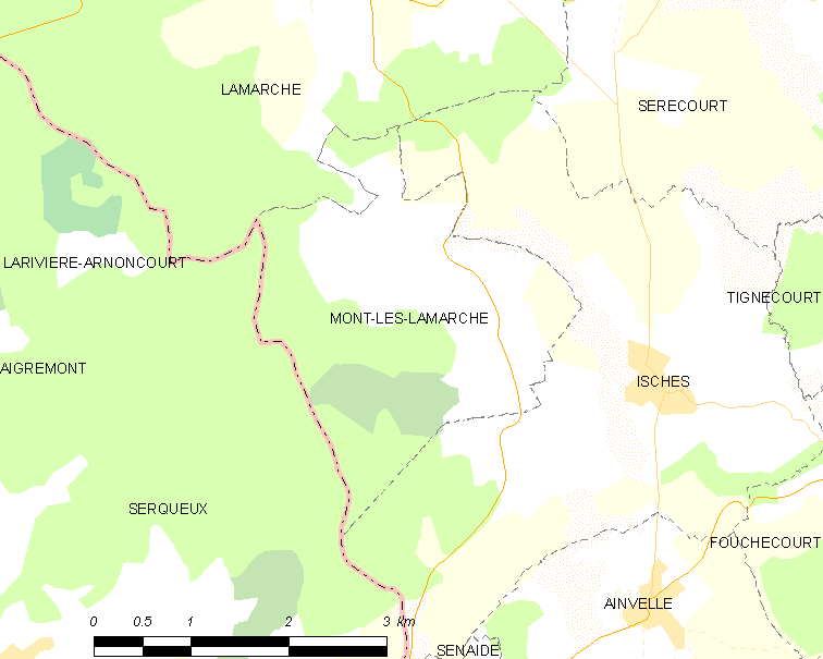 Map of French municipality Mont-lès-Lamarche